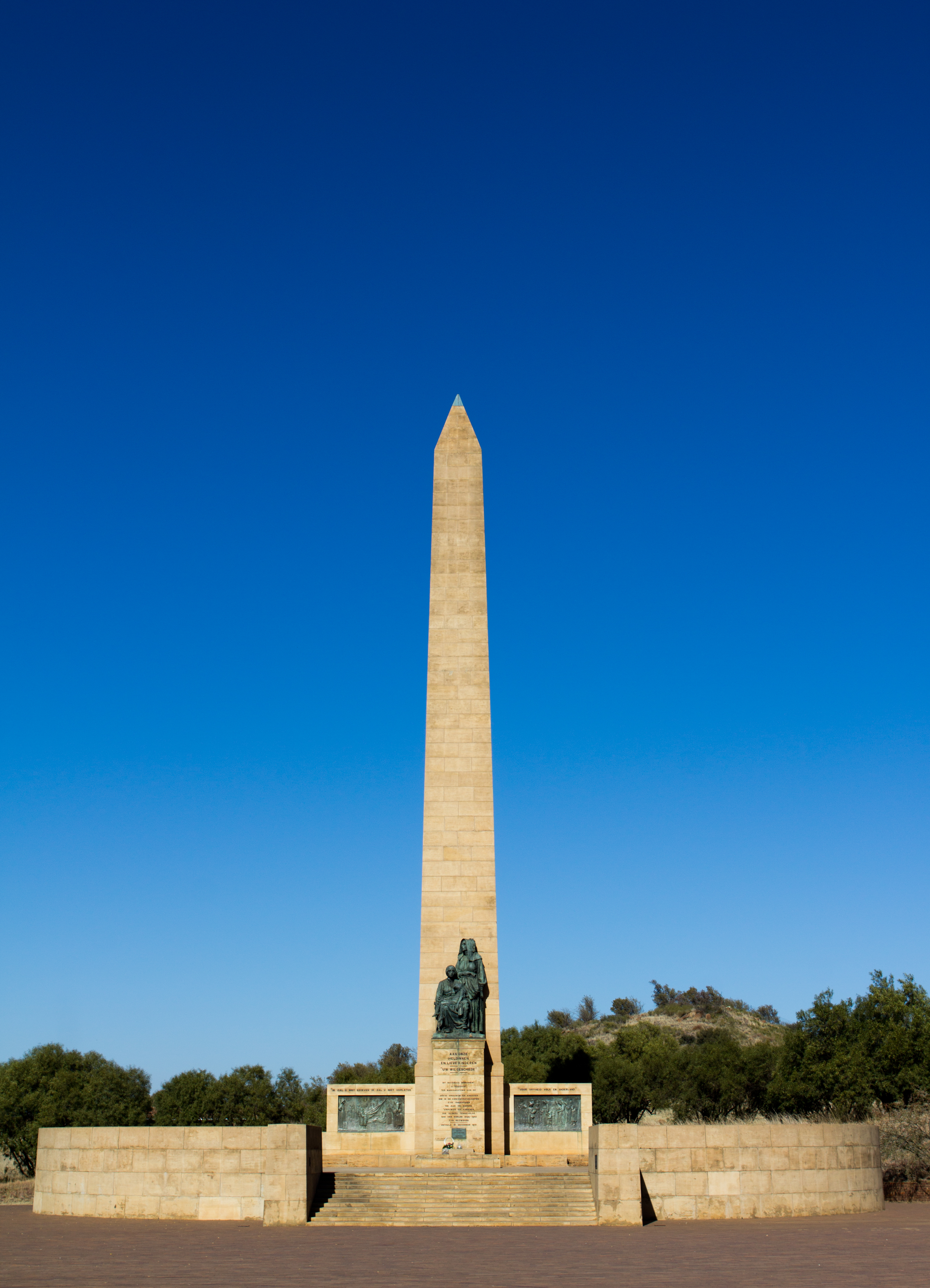 The Women's Memorial in Bloemfontein. "This oblisk of 36,5 metres high was built of Kroonstad sandstone in memory of the 26 370 Boer women and children who died during the Anglo Boer War(1899 -1902). It was unveiled on 16 December 1913." This media shows a South African Protected Site with SAHRA file reference 9/2/302/0045.